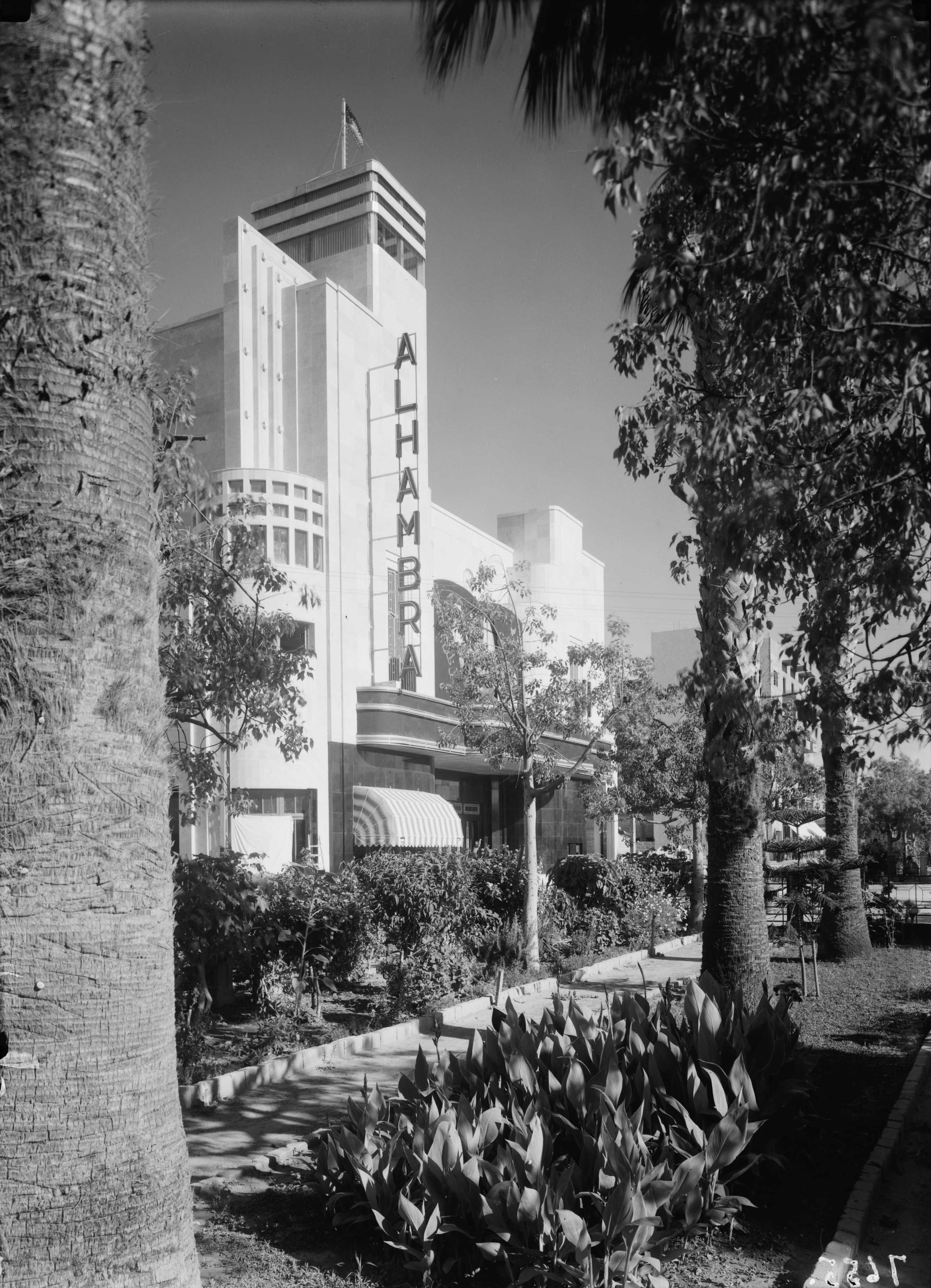 Jaffa. Alhambra Cinema. Arab cinema in Jaffa "Alhambra" TITLE: Jaffa. Alhambra Cinema. Arab cinema in Jaffa "Alhambra". CALL NUMBER: LC-M32- 7655[P&P] REPRODUCTION NUMBER: LC-DIG-matpc-03561 (digital file from original photo) RIGHTS INFORMATION: No known restrictions on publication. MEDIUM: 1 negative : glass, dry plate ; 5 x 7 in. CREATED/PUBLISHED: 1937. CREATOR: Matson Photo Service, photographer. NOTES: Title and date from: photographer's logbook: Matson Registers, v. 1, [1934-1939]. On negative sleeve: 9. Gift; Episcopal Home; 1978. SUBJECTS: Israel--Tel Aviv. FORMAT: Dry plate negatives. PART OF: G. Eric and Edith Matson Photograph Collection REPOSITORY: Library of Congress Prints and Photographs Division Washington, D.C. 20540 USA DIGITAL ID: (digital file from original photo) matpc 03561 CONTROL #: mpc2004002497/PP